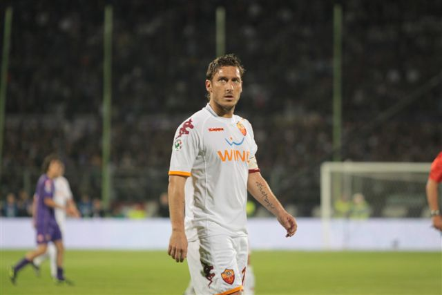 The popular Italian player Francesco Totti.